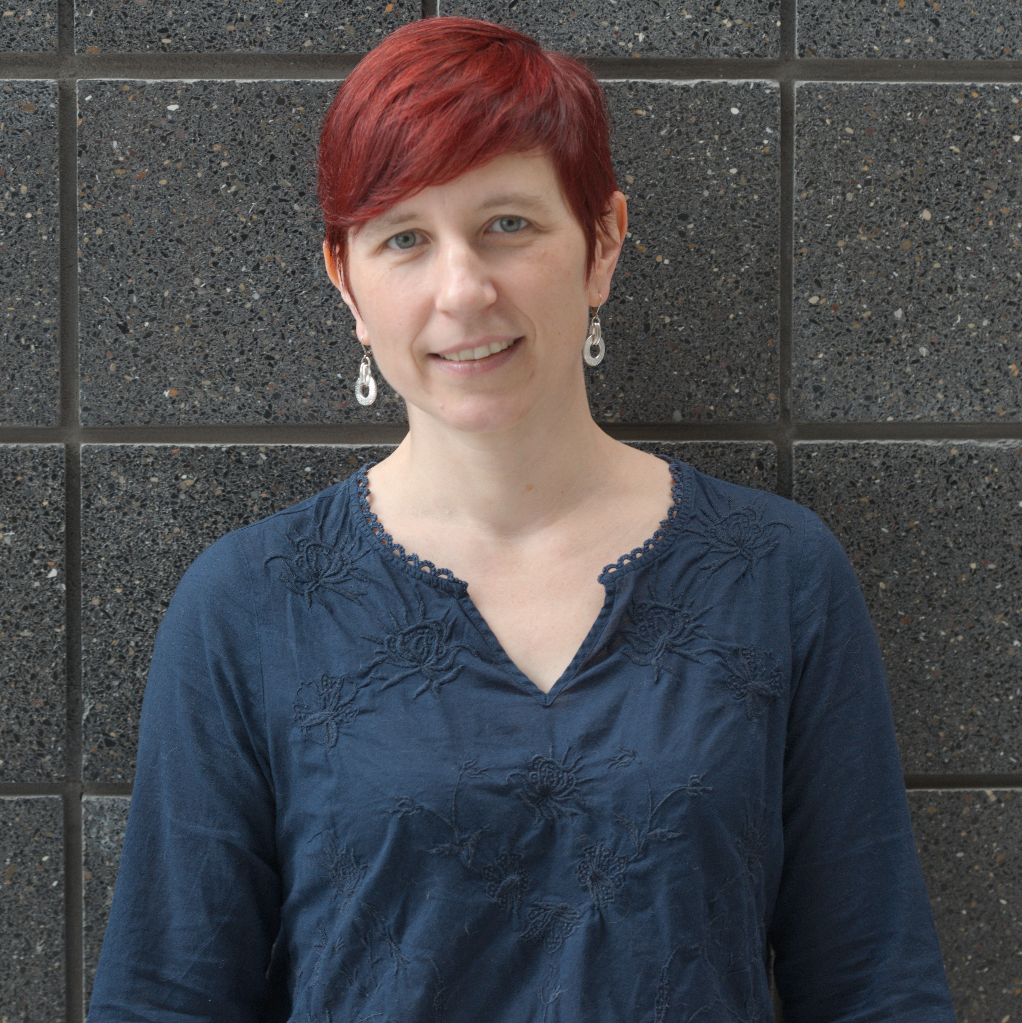 Canadian fantasy writer Caitlin Sweet at Loncon, Worldcon 2014.